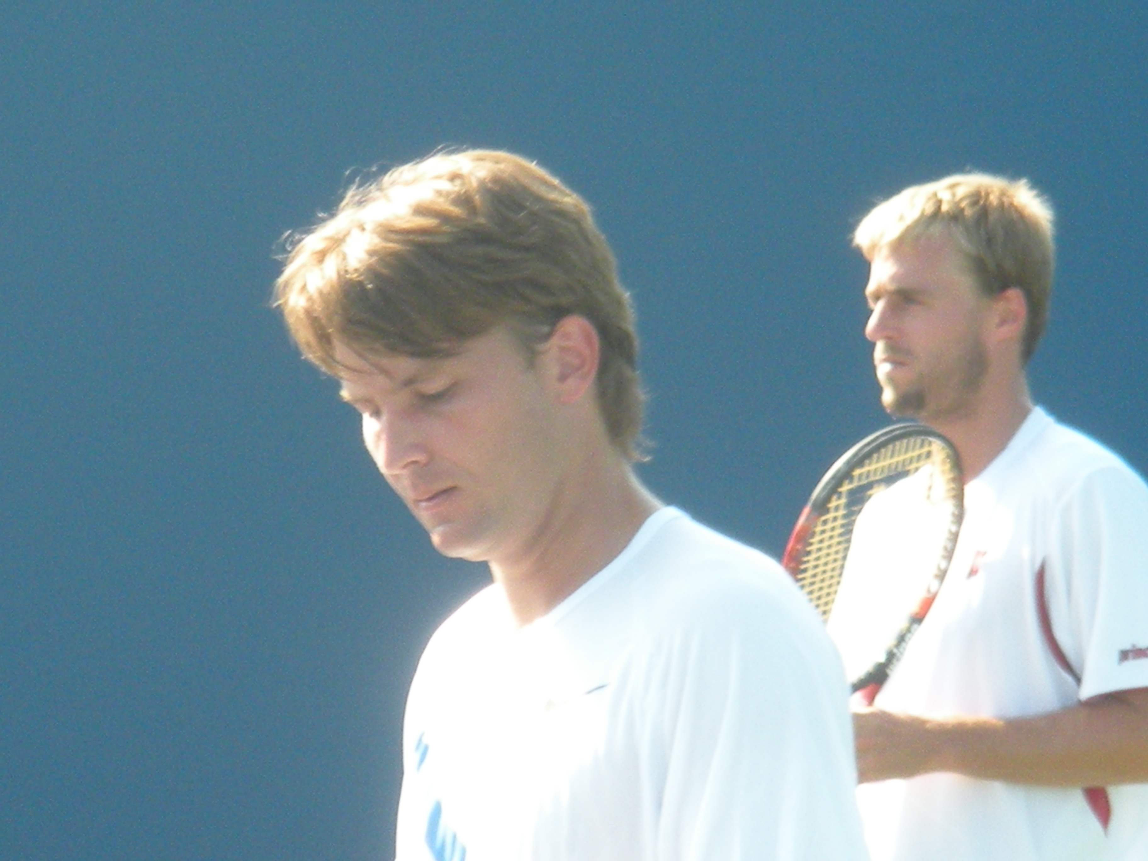 David Skoch (front) and Olivier Marach (back) playing doubles tennis in New Haven.